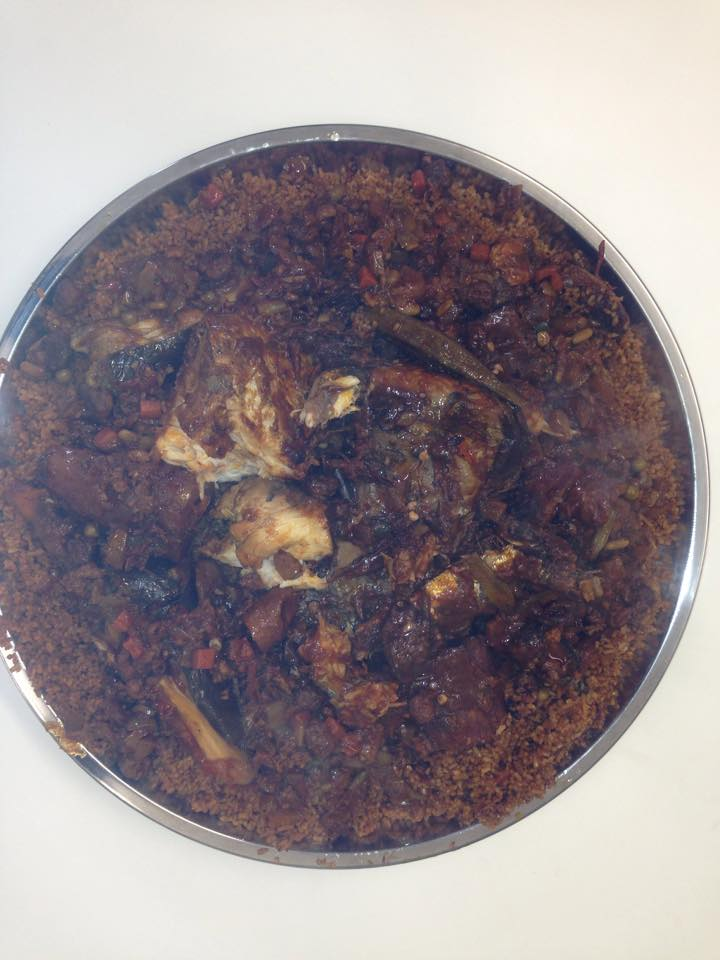 Considered as the national dish, the tiep is at the basis of food consumption in Senegal. It is made with rice, fish and vegetables.